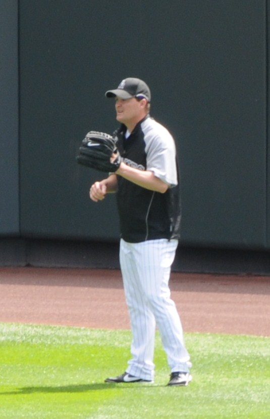 Description own work DateSourceI created this work entirely by myself.AuthorOnetwo1 (talk) 16:23, 8 August 2008 . . Onetwo1 . . 535×828 (107 KB) own work